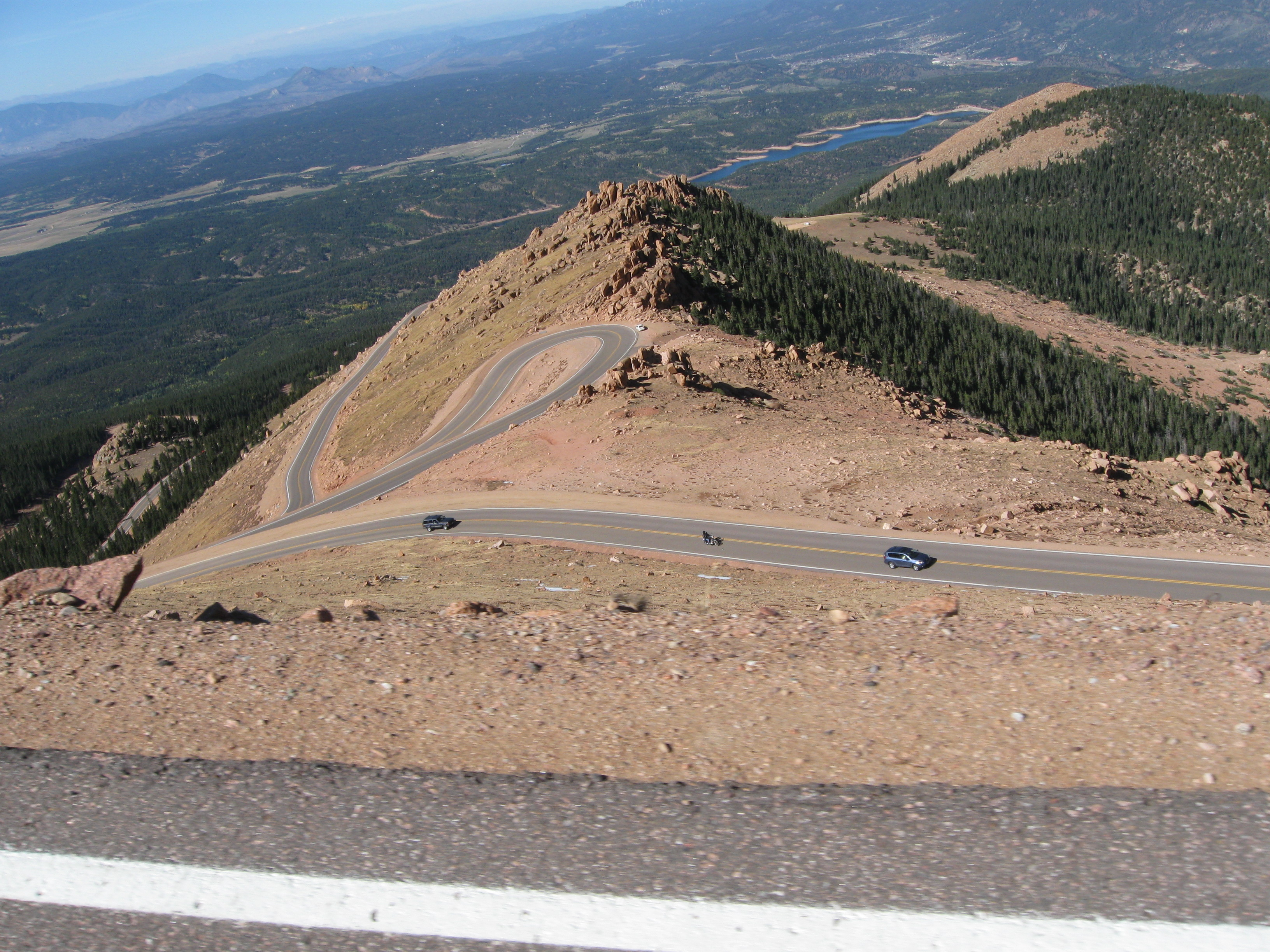 This photo was taken on September 23, 2011.